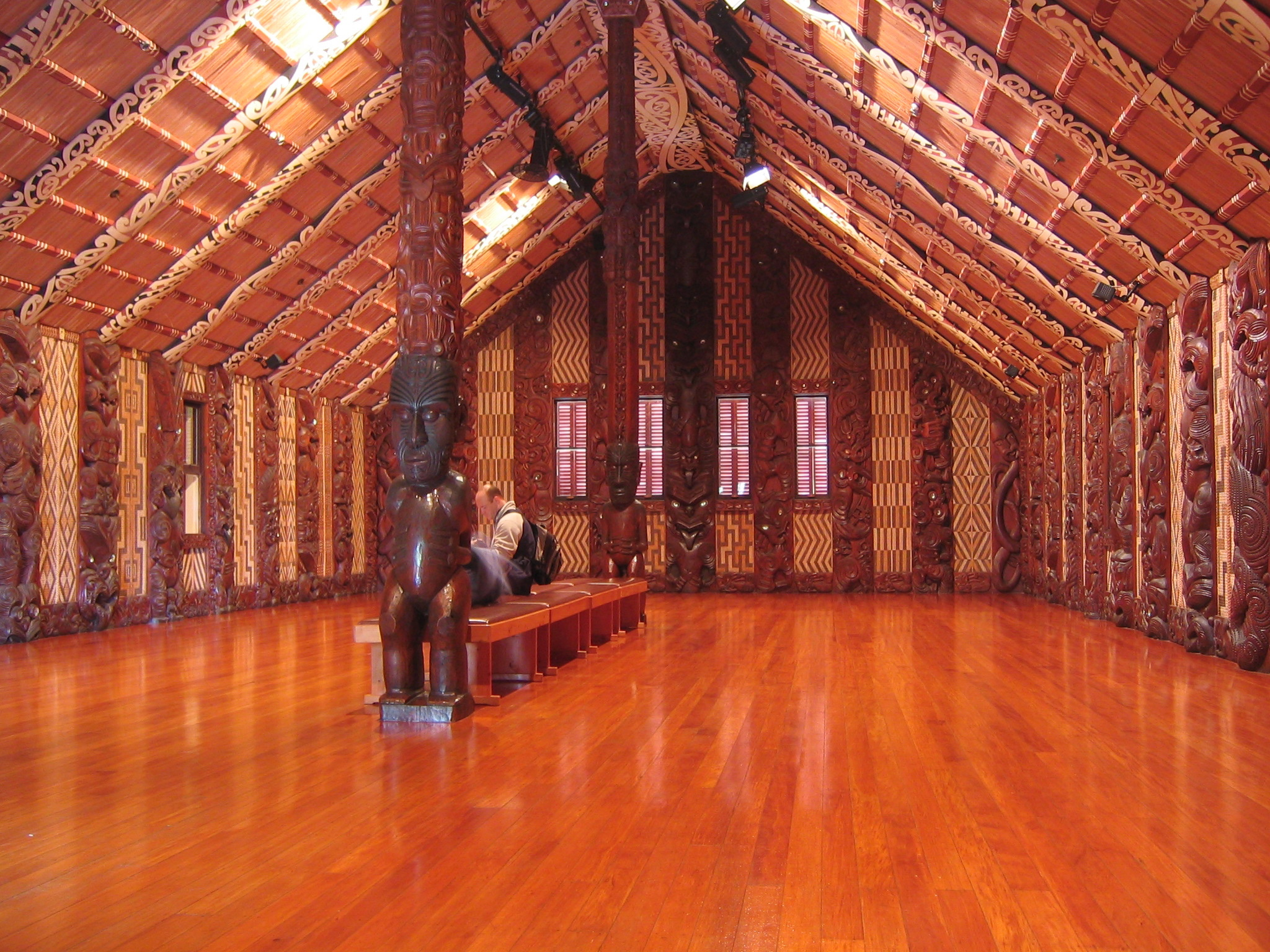 Waitangi, in the Bay of Islands in the far north of the New Zealand was the setting for the signing of the Treaty of Waitangi in 1840. This document formalised the arrangement between Maori and the British, and is still controversial today. This is the "wharenui" or meeting house on the treaty grounds at Waitangi, a national meeting house representative of all tribes. It is usually open to visitors to the treaty grounds. Similar buildings stand on the marae (ceremonial/communal centres) of most Maori communities.